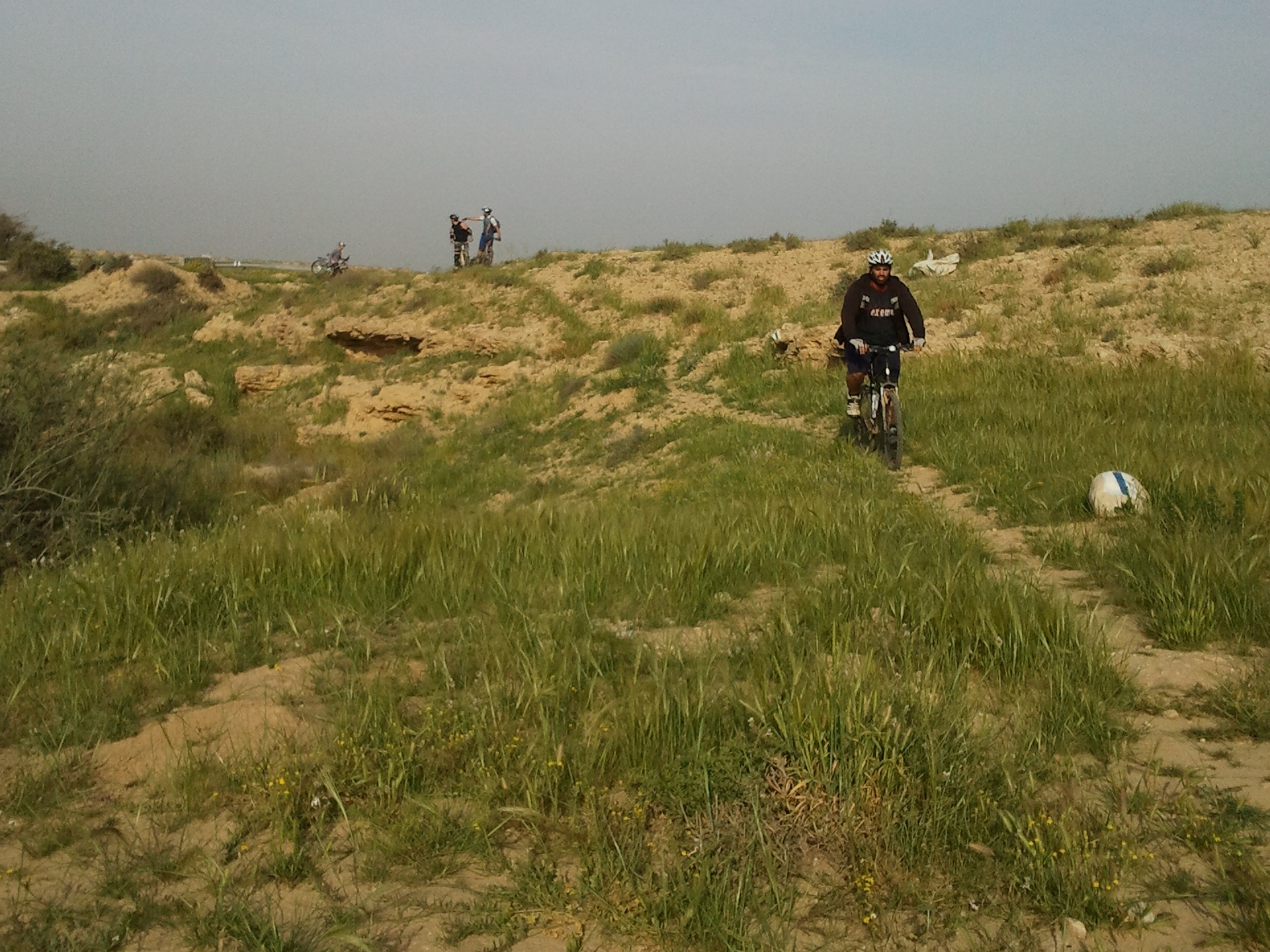 mountain bicycle riders in Beer Sheva trail